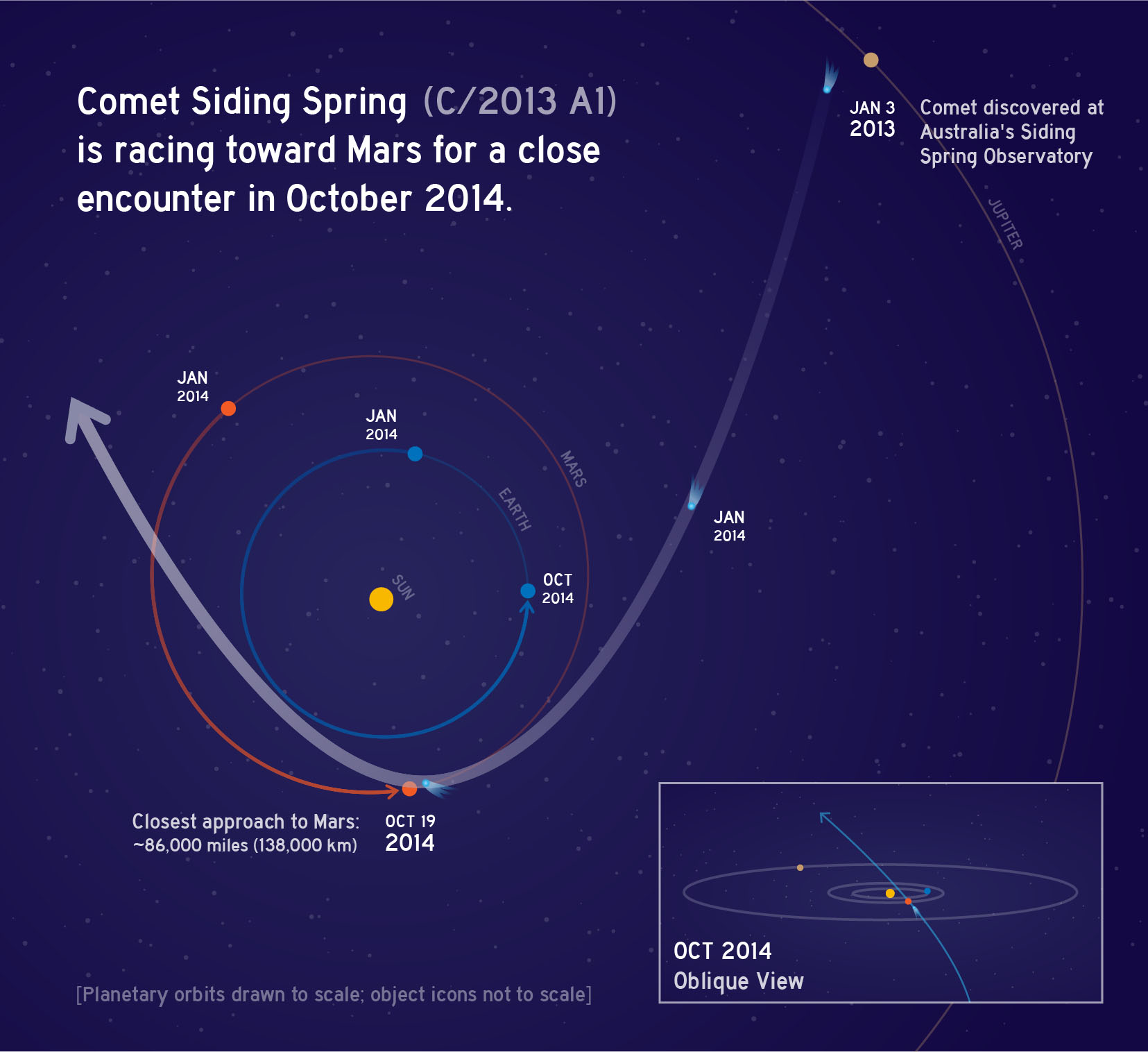 NEOWISE Spies Comet C/2013 A1 Siding Spring Comet Encounter With Mars Click here for larger version of PIA17833 - Figure 1 NASA's NEOWISE mission captured images of comet C/2013 A1 Siding Spring, which is slated to make a close pass by Mars on Oct. 19, 2014. The infrared pictures reveal a comet that is active and very dusty even though it was about 355 million miles (571 million kilometers) away from the sun on Jan. 16, 2014, when this picture was taken. The infrared measurements will allow astronomers to determine the sizes and quantity of dust particles being flung off the comet. The measurements will also give engineers some indications of what orbiting spacecraft at Mars might expect when the comet gets close. Preliminary analysis of the data indicate approximately 220 pounds (100 kilograms) of dust are being ejected from the comet's surface each second, assuming the grains are dark and nearly the density of water-ice. The comet's activity is expected to increase as it gets closer to Mars. JPL manages NEOWISE for NASA's Science Mission Directorate at the agency's headquarters in Washington. The Space Dynamics Laboratory in Logan, Utah, built the science instrument. Ball Aerospace & Technologies Corp. of Boulder, Colo., built the spacecraft. Science operations and data processing take place at the Infrared Processing and Analysis Center at the California Institute of Technology in Pasadena. Caltech manages JPL for NASA. More information is online at and and